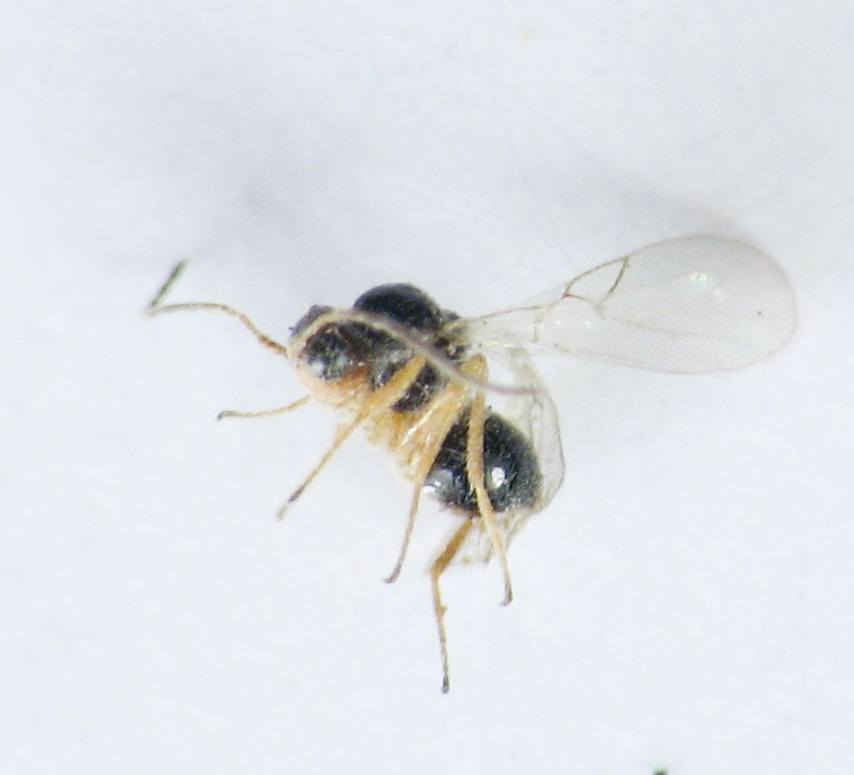 Parasitoid wasp, Charipinae, in twig nest of Pemphredonini wasp. Size: 1 mm. Blue Bell, Montgomery County, Pennsylvania, USA.